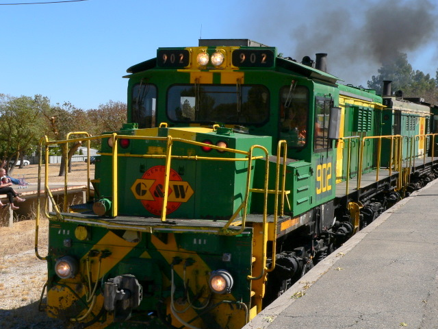 The G&W 902 Penrice quarry limestone train passing the Tanunda railway station on the way to Osbourne, Port Adelaide